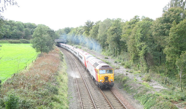 Holyhead to London Euston Express